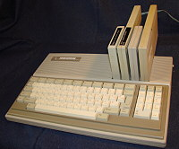 Soviet personal computer "Poisk"